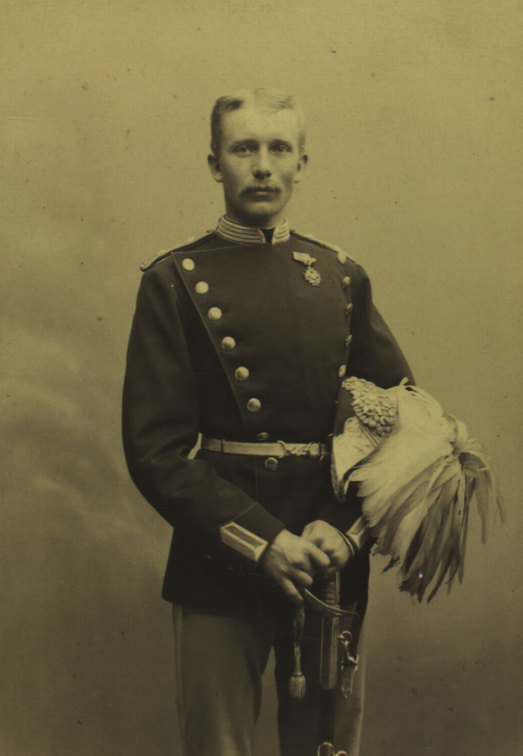 Axel Otto Tage Niels Basse Kauffmann (1858-1937), Danish army officer